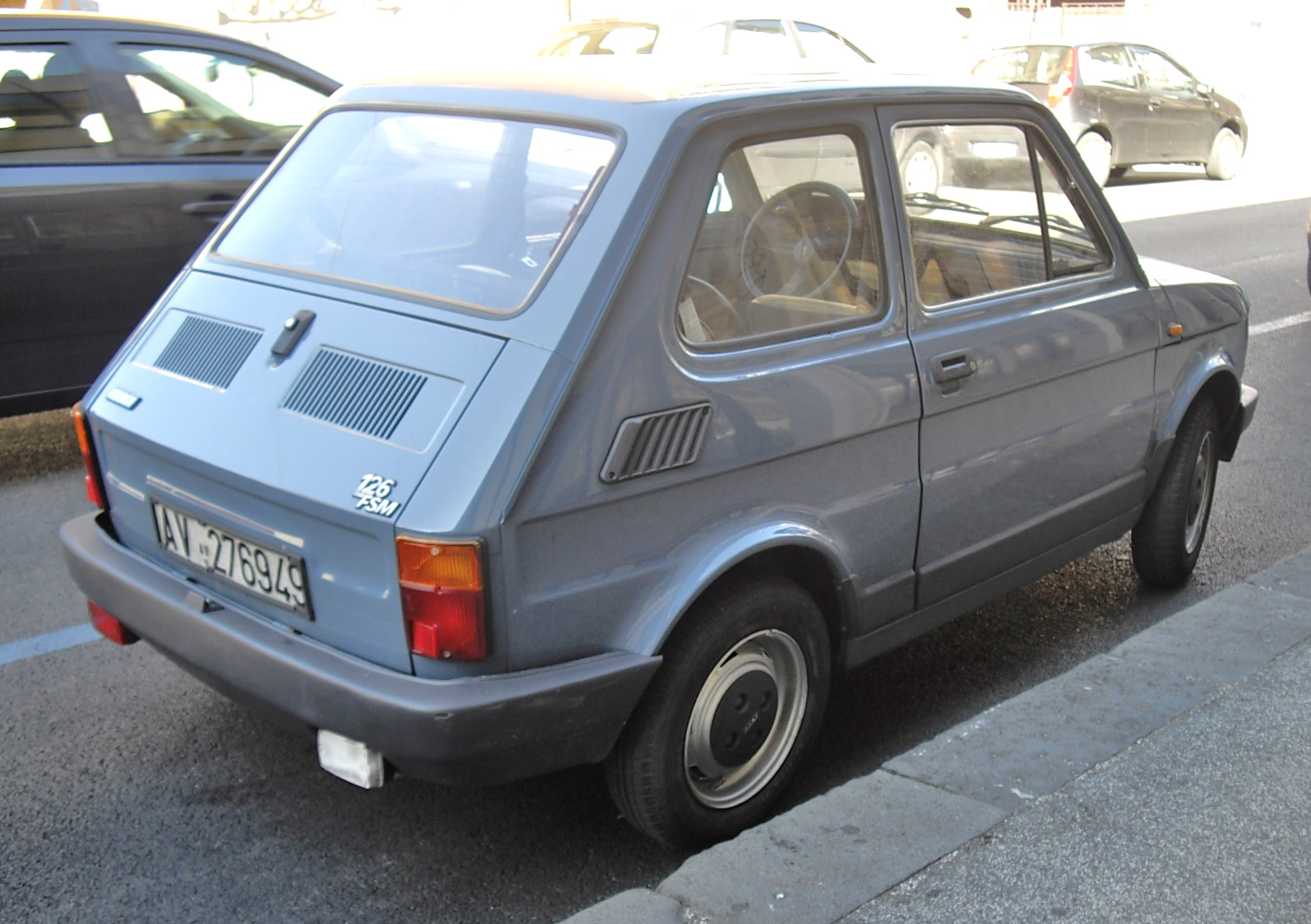 Fiat 126 FSM